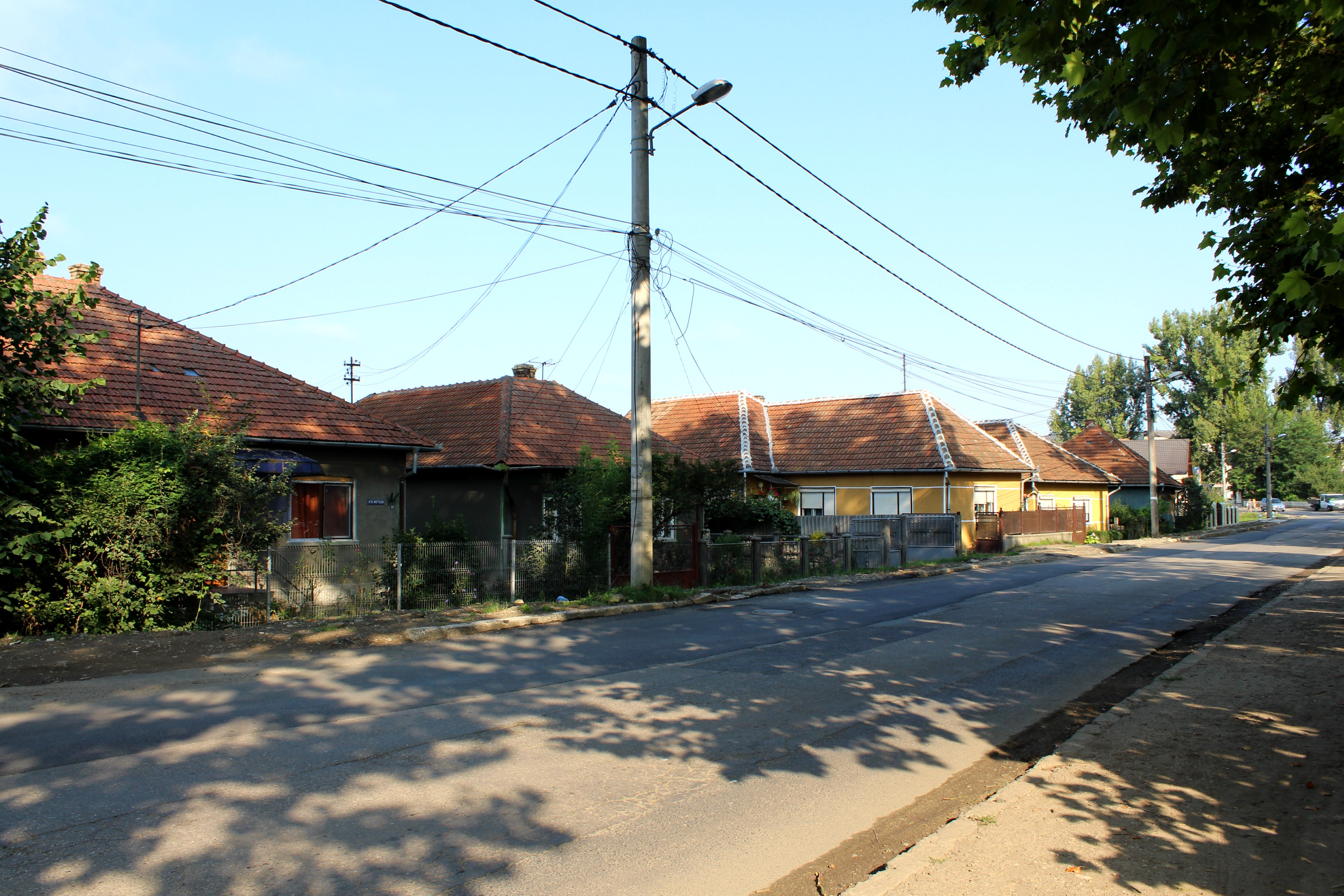 Moților Street no. 10-20 in Brad, Romania